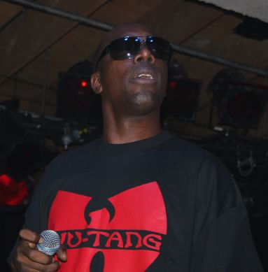 Inspectah Deck in San Francisco, California.